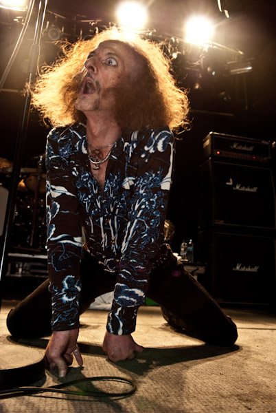 Bobby Liebling, live at Hole In The Sky - Bergen Metal Fest 2009